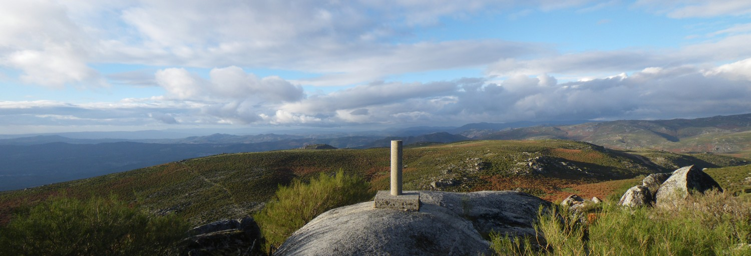 Top of Vidueiros mountain, in Covelo council (Galicia, Spain)